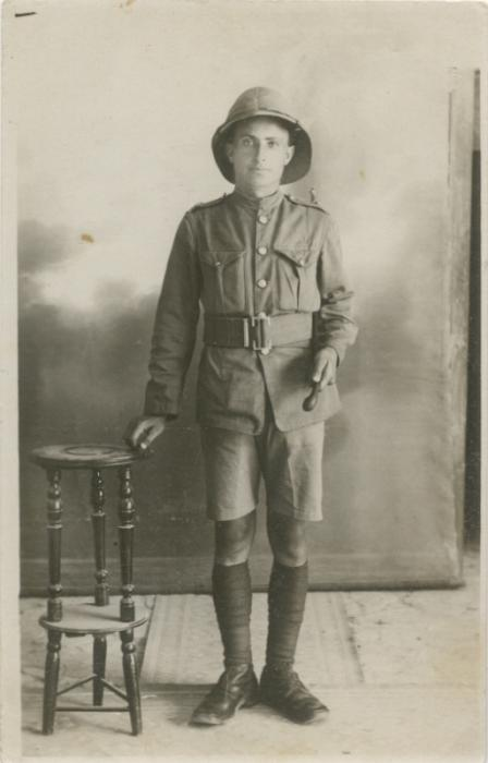 British soldier in Rehovot Israel, during First World War (1917-1918)